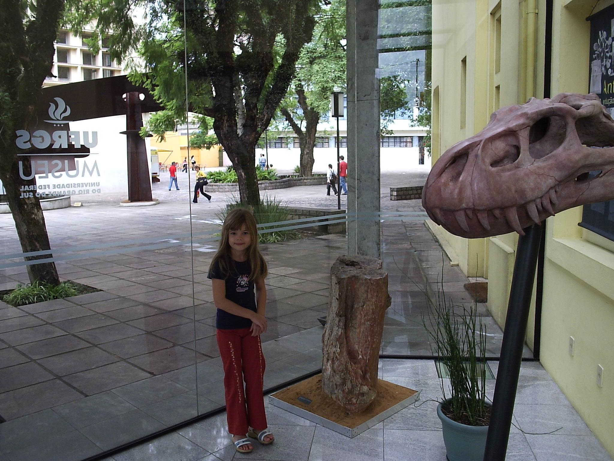 Karamuru skull, petrified wood , and child